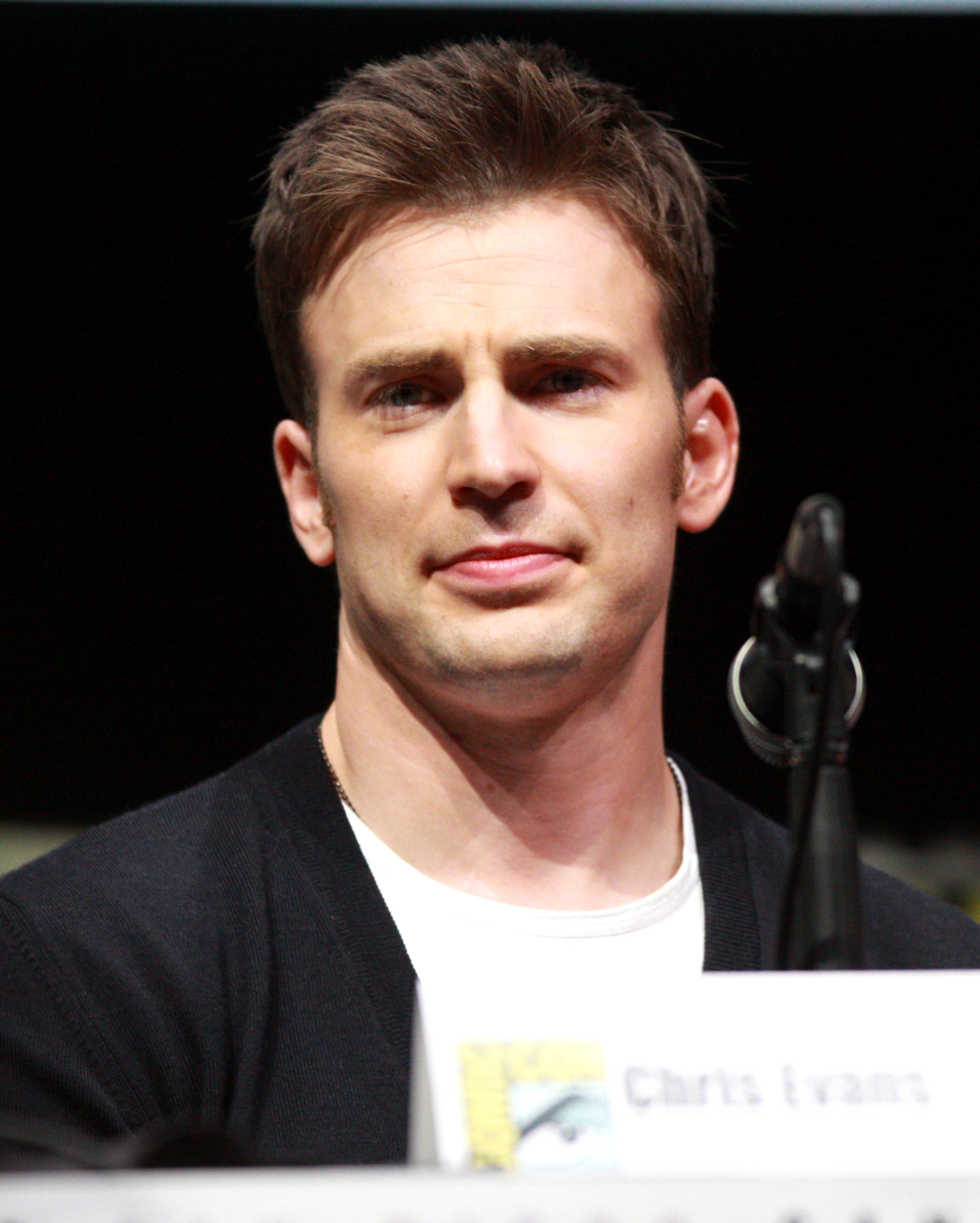 Chris Evans at the 2013 San Diego Comic Con International in San Diego, California.